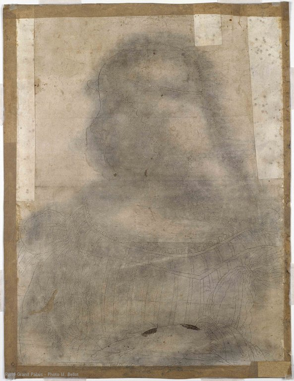 Verso